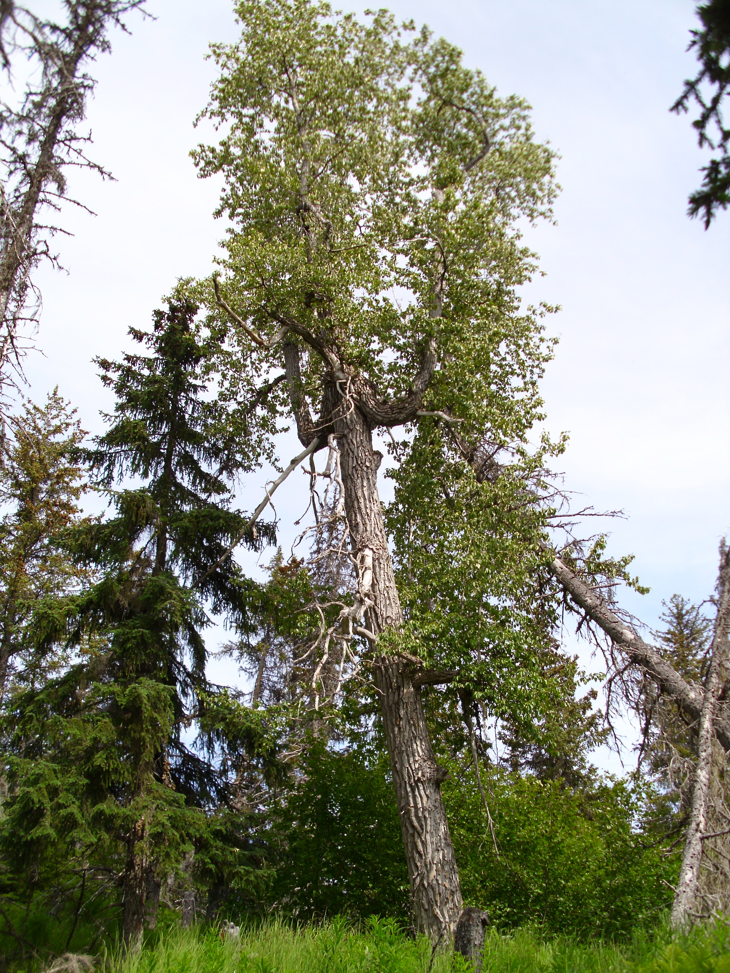 Populus trichocarpa, same tree from File:Blackcottonwoodtrunk.jpg seen from a short distance